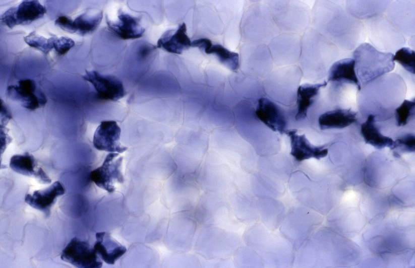 Hyphea of Hyaloperonospora parasitica (downy mildew) growing within the leaf of an incompatible (resistant) Arabidopsis thaliana (cf.wikipedia) observed by bright-field microscopy. The staining with trypan blue makes the dead cells of A. thaliana dark blue. The phenomenon observed is called trailing necrosis: The plant 'kills' its cells in contact with P.parasitica in order to stop its development. The life cycle of H. parasitica is disrupted.